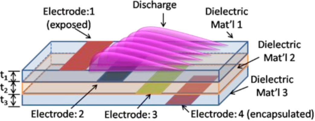 The schematic shows a tri-layer design of a multi-barrier plasma actuator (MBPA) which is an extension of the conventional single layer dielectric barrier discharge (DBD) plasma actuator design.